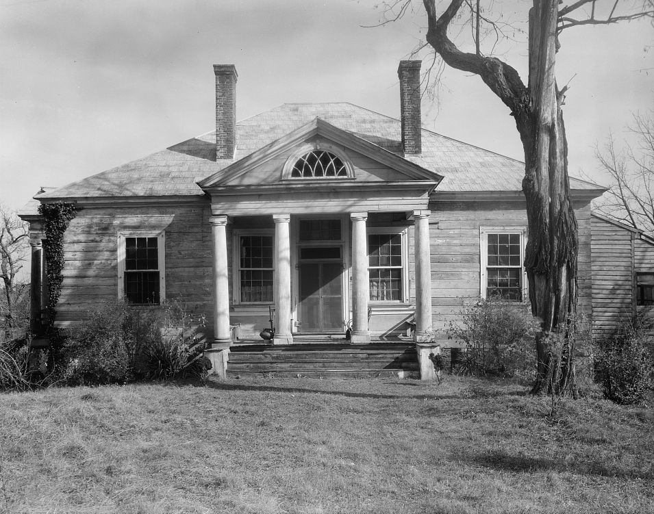 "Edgemont, Keene vicinity, Albemarle County, Virginia," black and white photograph by the American photographer Frances Benjamin Johnston. 8 in. x 10 in. 'Edgemont," the home of Col. James Powell Cocke, was designed by Thomas Jefferson, and based on the villa Rotunda design of Palladio. Photograph is part of the Carnegie Survey of the Architecture of the South, Library of Congress. Photographer Johnston bequeathed her photographic archives to the Library of Congress in perpetuity. There are no restrictions on publication. Image courtesy of the Library of Congress, Washington, D.C.